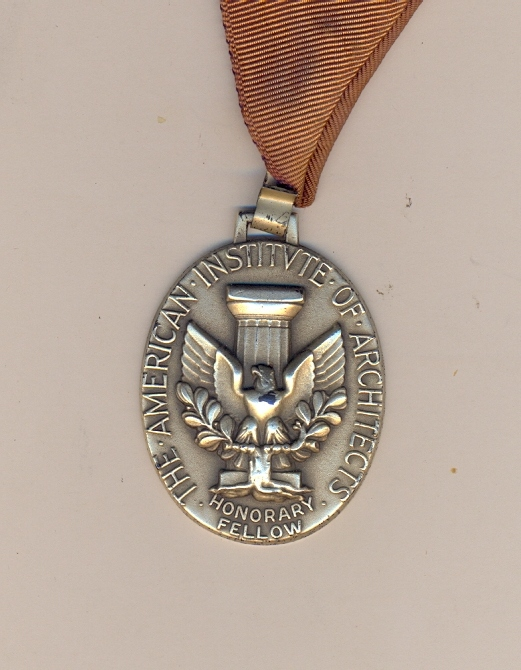 honorary fellow medal of the American Institute of Architects (AIA) with backside inscription "A.J.H.M. Haak 1971"